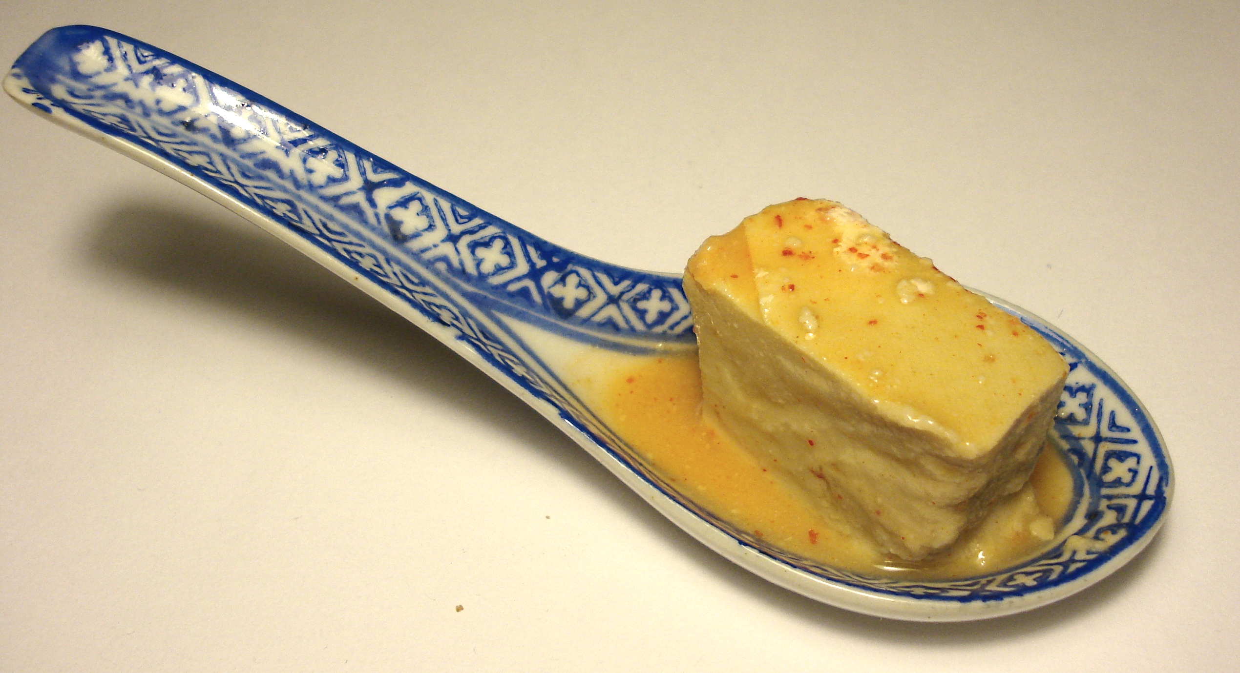 Fermented Chili Bean Curd in Porcelain Spoon